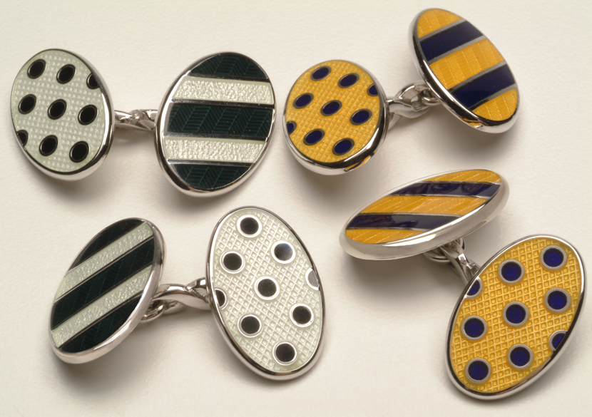 Two double-sided cuff links. One white and black. One gold and blue.